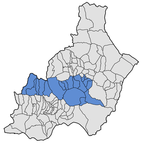 Map of Los Filabres - Tabernas, region of province of Almería